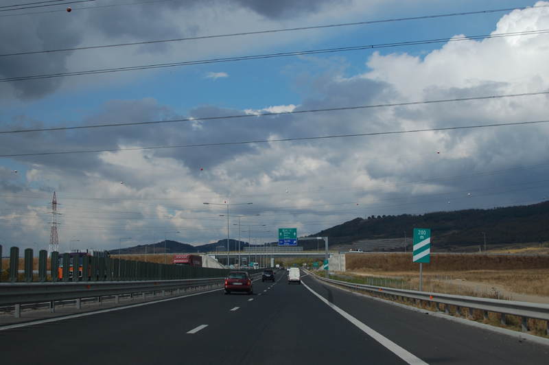 A1 Sibiu bypass 200 m before exit Sibiu Est